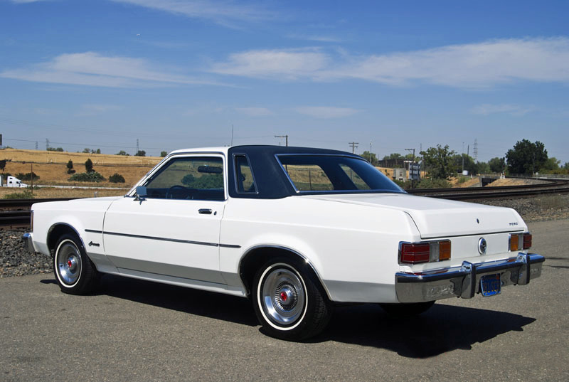 rear 3/4 view of a 1977 Ford Granada coupe